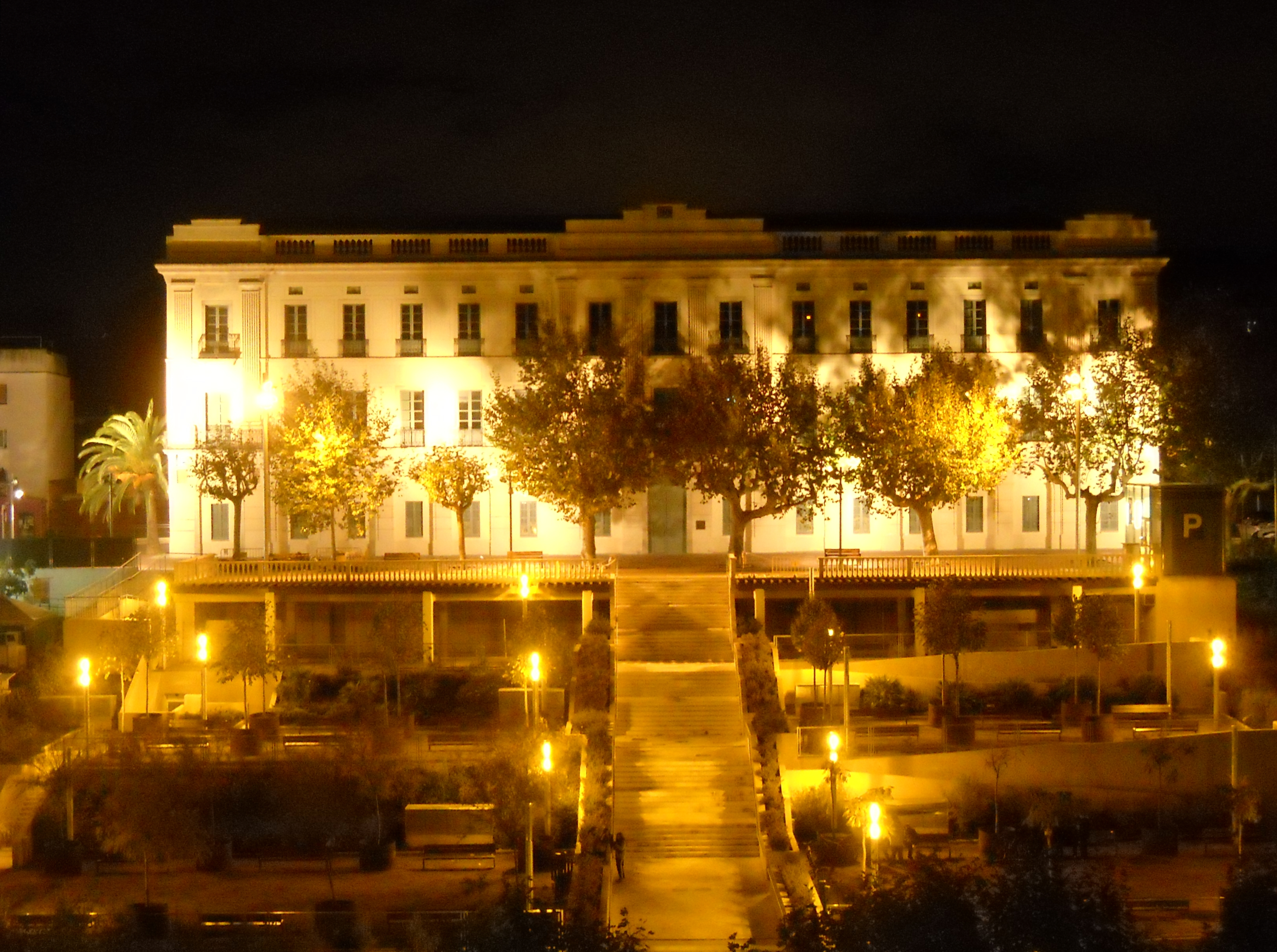 Night view of Xifre Building at Arenys de Mar..It used to be the "Youth Hostel" associated to YMCA